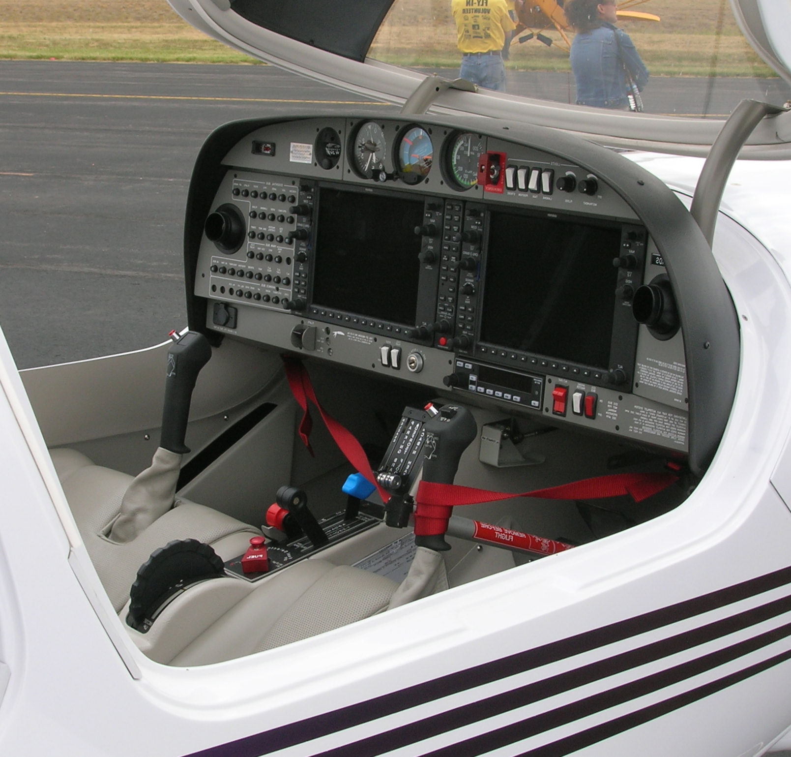 Diamond DA40 cockpit detail, Front Range Airport, Denver CO